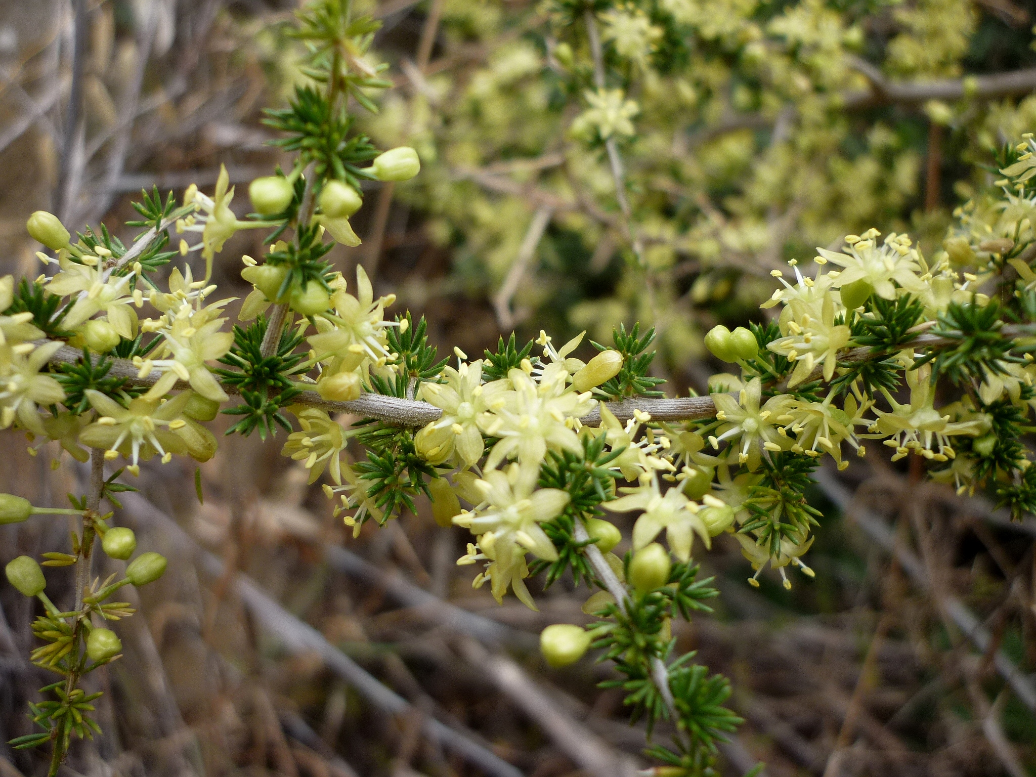 Asparagus acutifolius. In Torà (Segarra-Catalunya). To 580 m. altitude